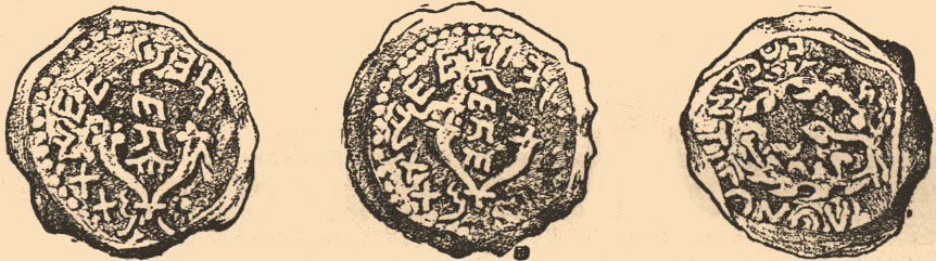 Illustration from Brockhaus and Efron Jewish Encyclopedia (1906—1913)